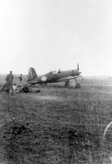 Vultee Vanguard (P-66) of the Chinese Nationalist Air Force/American Volunteer Group.